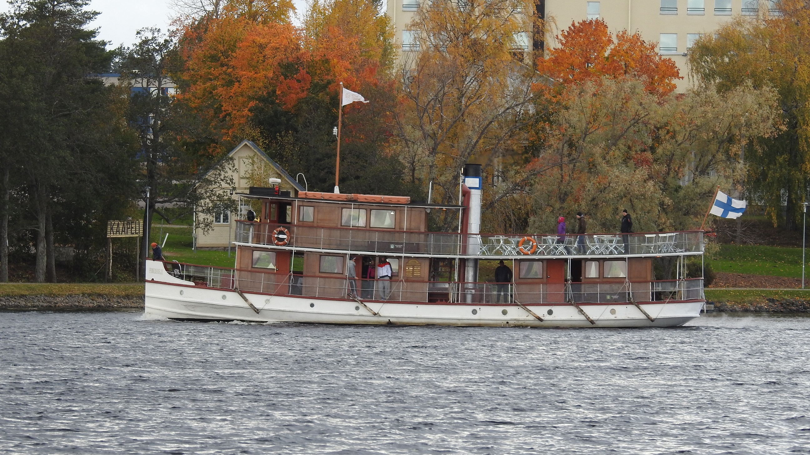 S/S Punkaharju (Pihlajavesi, Karvalakkiregatta 2016)